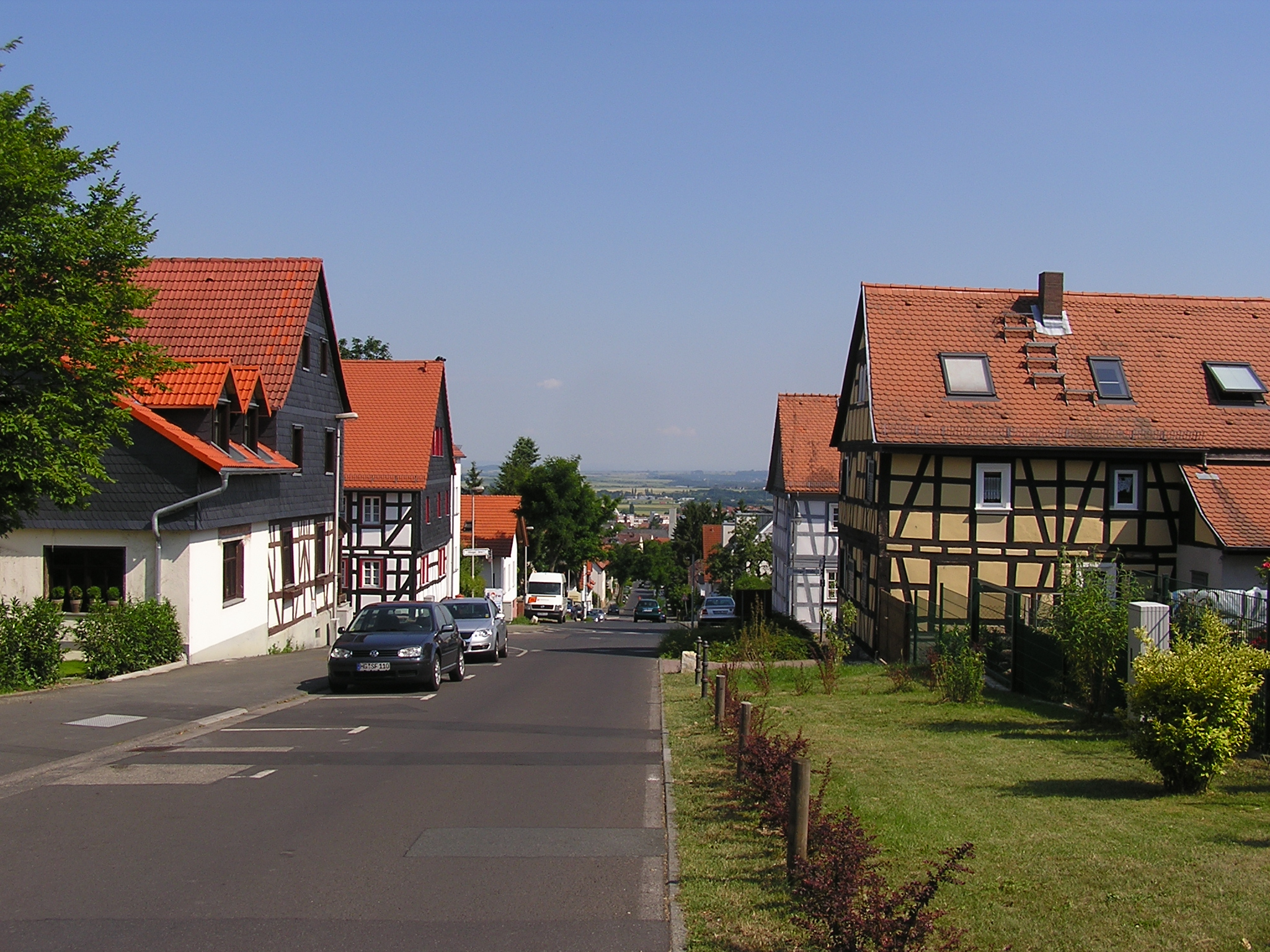 Dillingen, a district of Friedrichsdorf, is located at the slope of the Taunus.